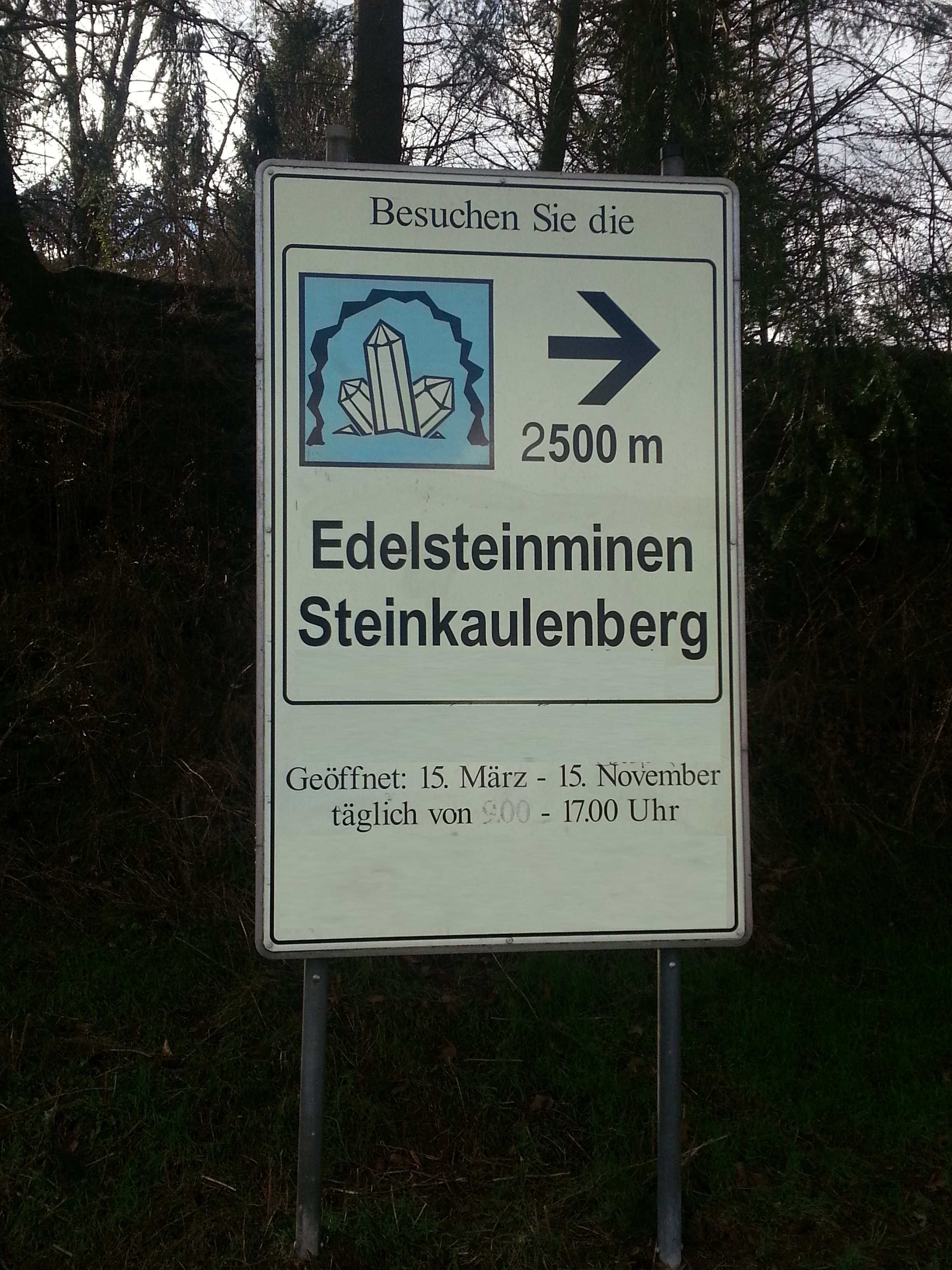 direction sign to gemmine Idar-Oberstein, Wegweiser zu den Edelsteinminen Steinkaulenberg Idar-Oberstein